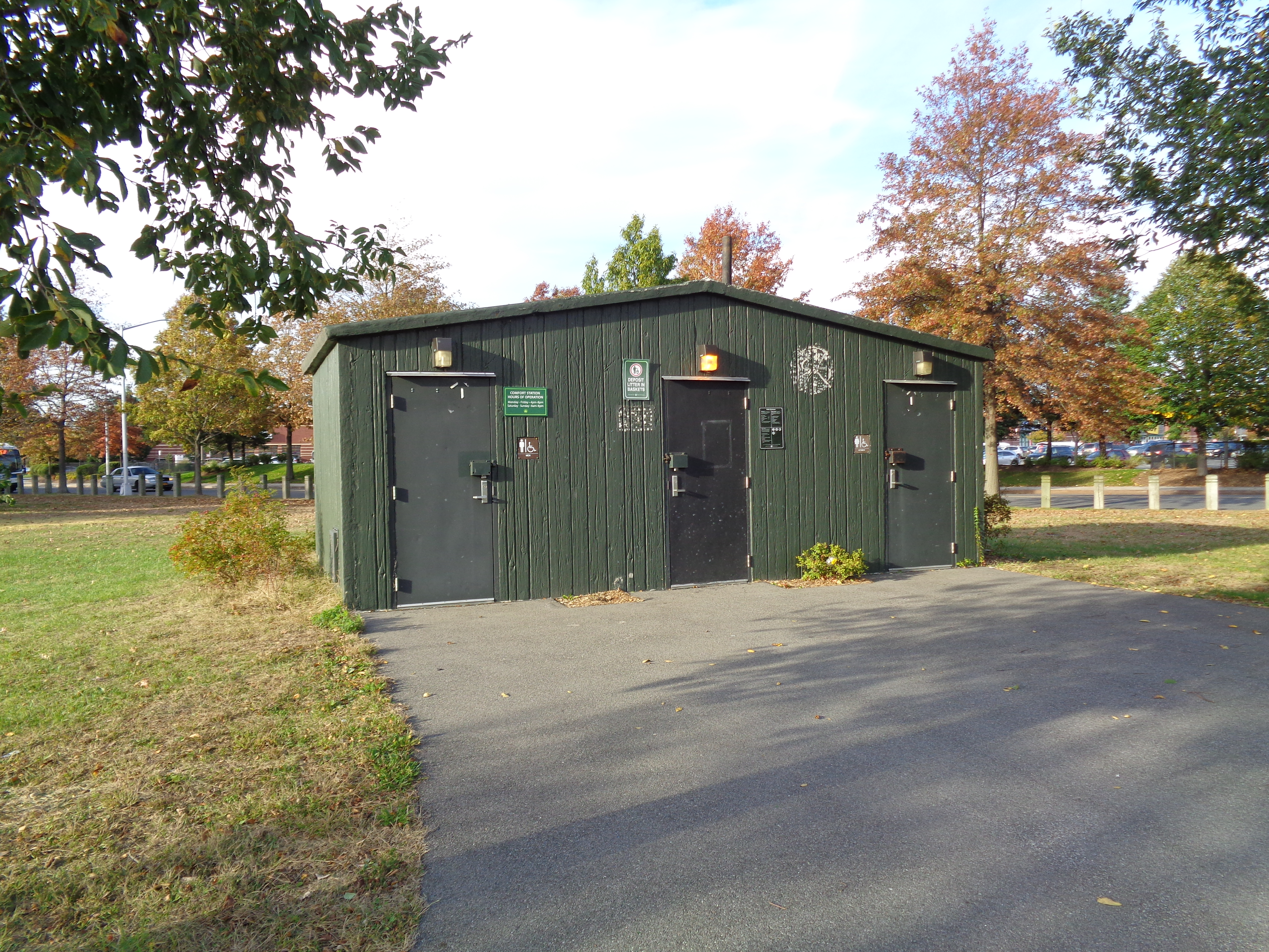 The portion of Spring Creek Park, located on the west side of Gateway Center mall on Gateway Drive and along the Hendrix Creek shore in Spring Creek, Brooklyn. This section of the park was created by the mall developers in the 2000s. Pictured is the comfort station (bathroom) near the Roy Sweeny Cricket Oval, at the southwest corner of the Gateway site.